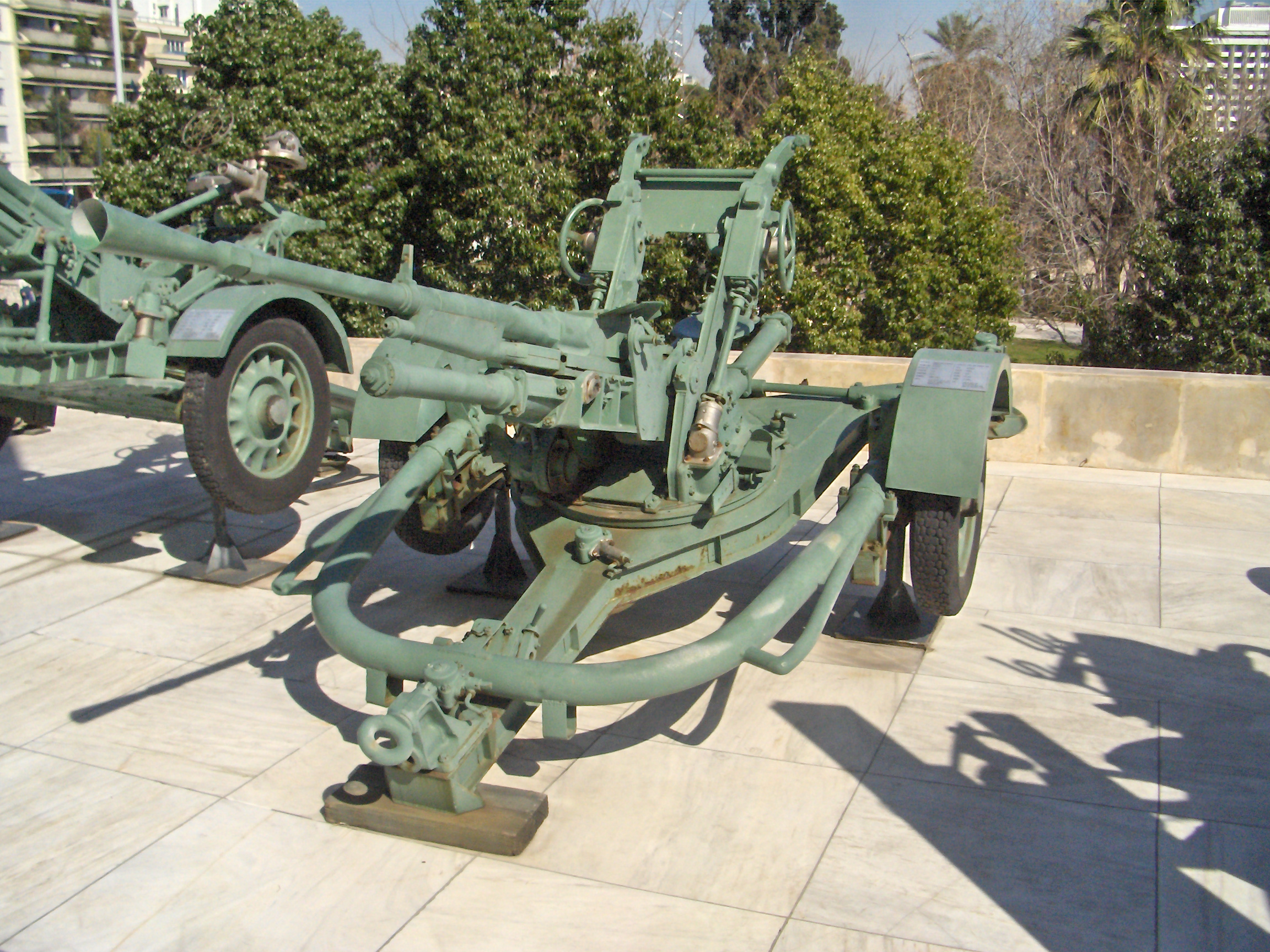 Exhibit at the War Museum in Athens. Hotchkiss 25mm AA gun